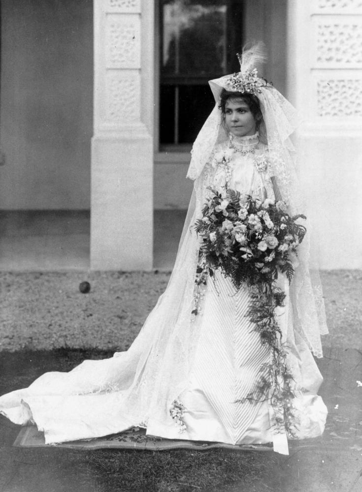 Mary Thomas on her wedding day, April 1901, Ipswich Miss Mary Thomas (1877 - 1921), only daughter of wealthy colliery owner, Lewis Thomas M. L. A., pictured on the day of her wedding to Thomas Bridson Cribb Jnr., (of the Ipswich firm of Cribb & Foote) 1 April 1901. The young bride stands outside Brynhyfryd, her father's home, wearing a gown trimmed with orange blossoms and a veil of Limerick lace. (Description supplied with photograph.) Note: photograph is inversed.